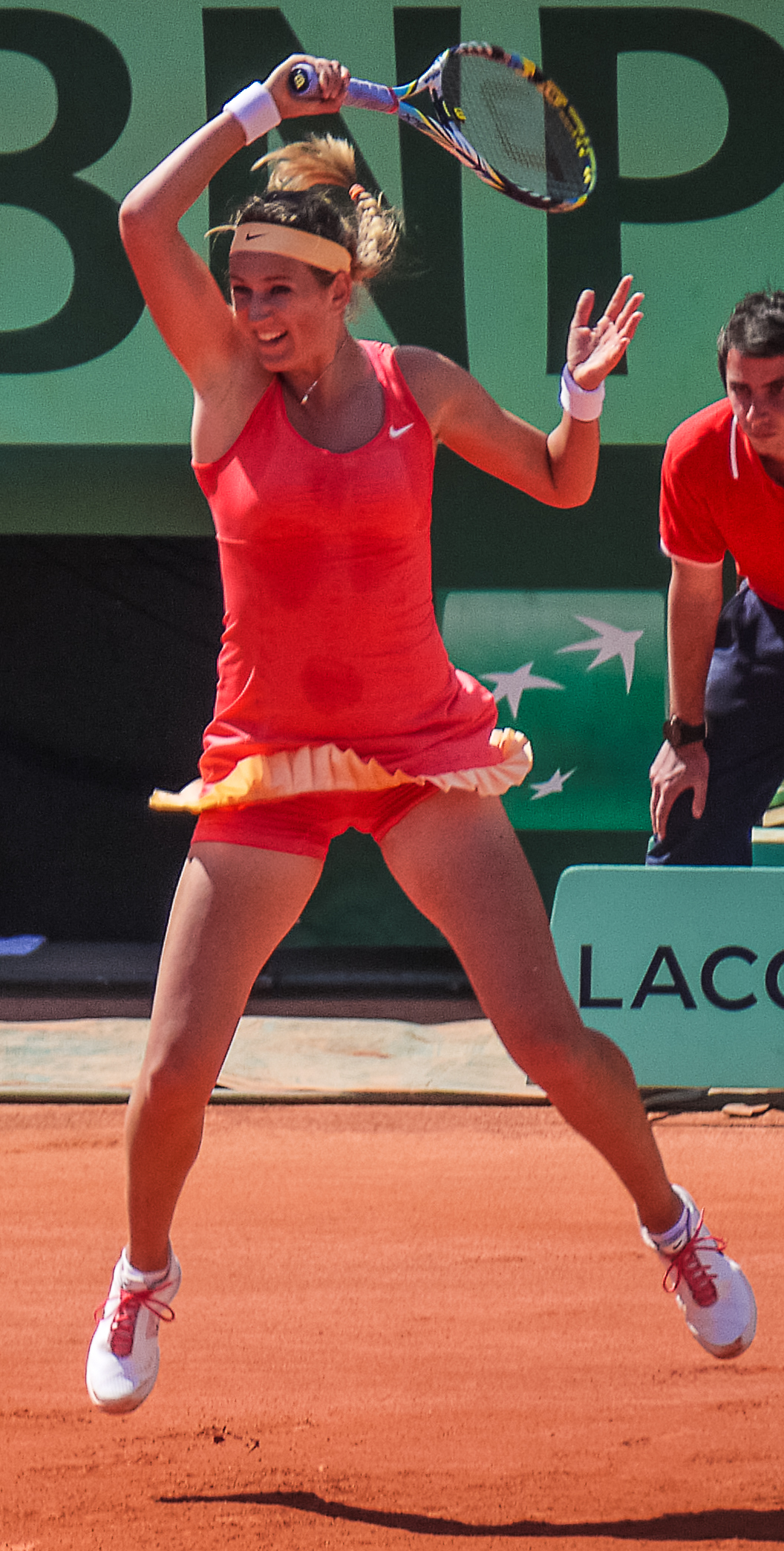 2ème tour Roland Garros 2012 : Victoria Azarenka (BLR) def. Dinah Pfizenmaier (GER)